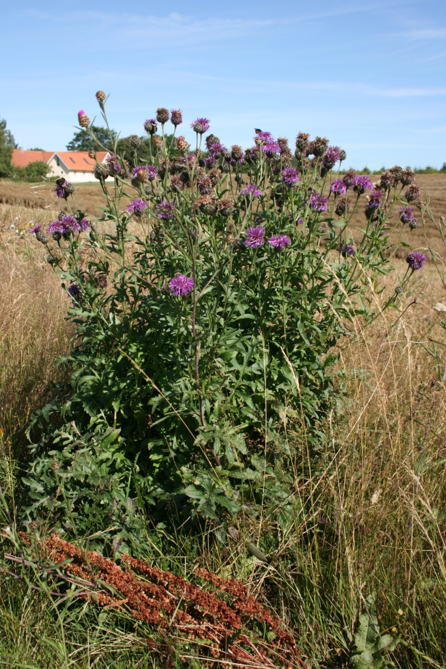 Greater Knapweed (Centaurea scabiosa): Habitat.